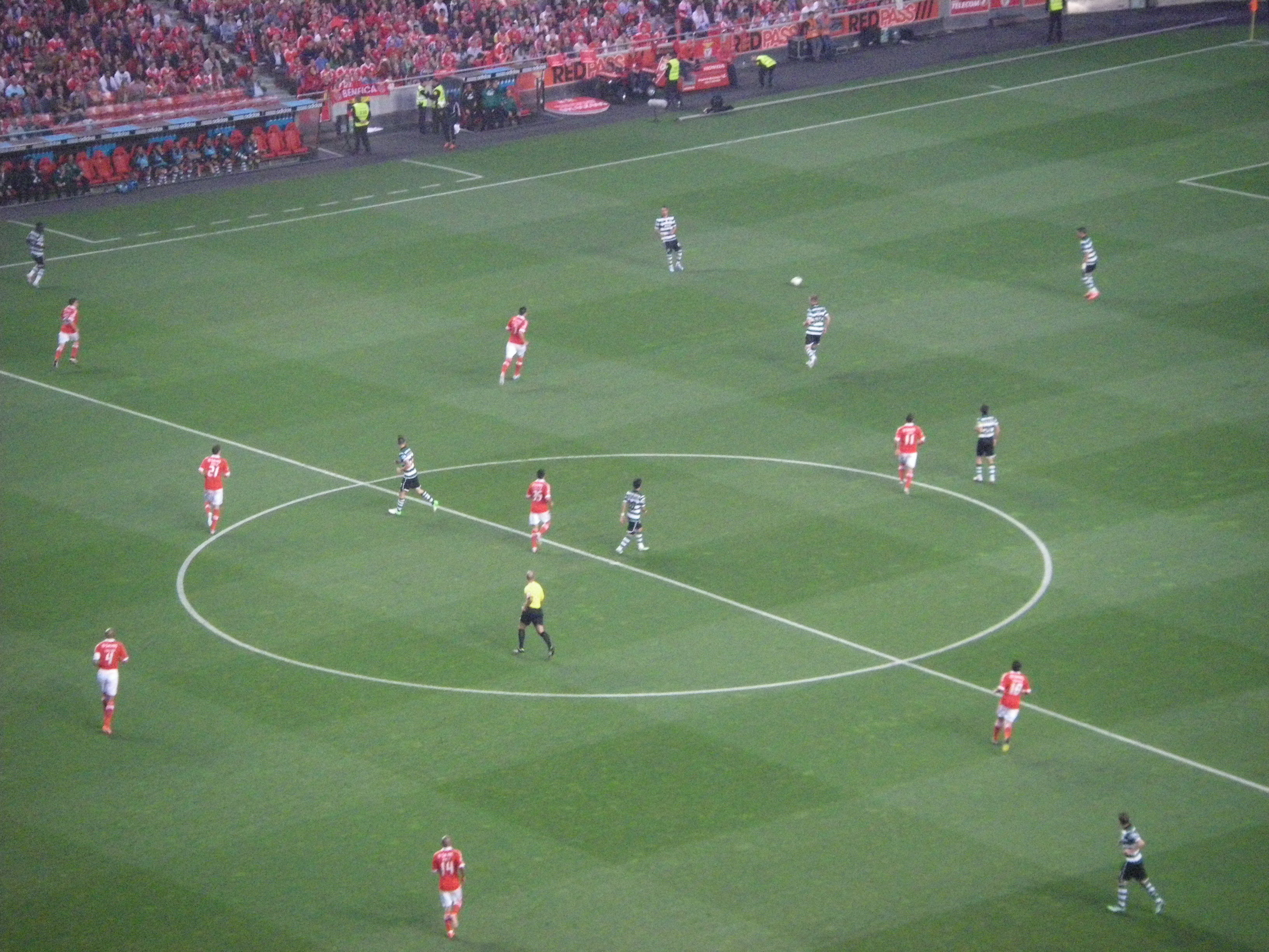 Straight after the kick-off for the Derby de Lisboa on April 21, 2013, Benfica vs Sporting 2-0